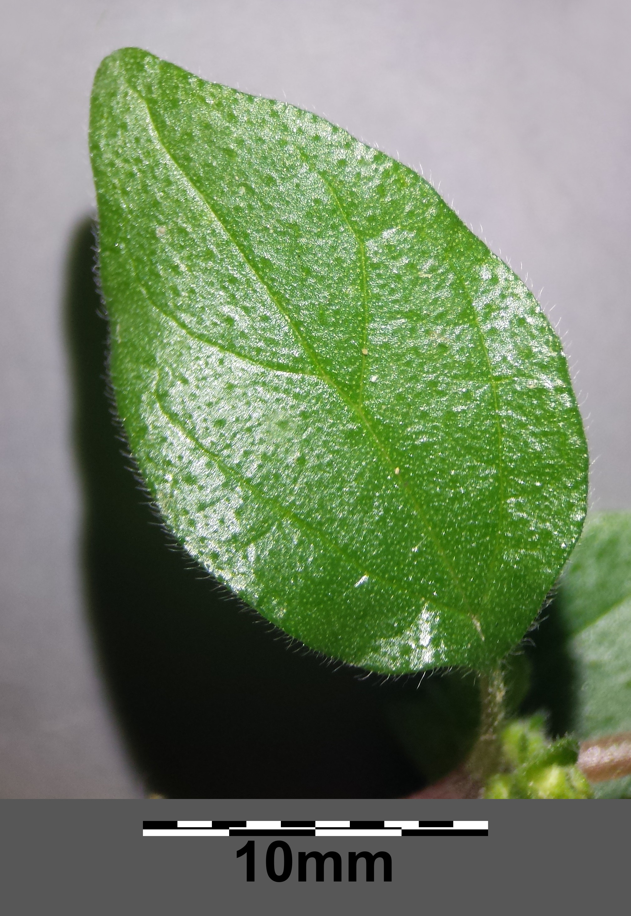 Top side of leaf Taxonym: Parietaria judaica ss Fischer et al. EfÖLS 2008 ISBN 978-3-85474-187-9 Location: Italienerschleife at Martha-Steffy-Browne-Gasse, Vienna-Floridsdorf - ca. 160 m a.s.l. Habitat: ruderal area under/next to railroad viaduct